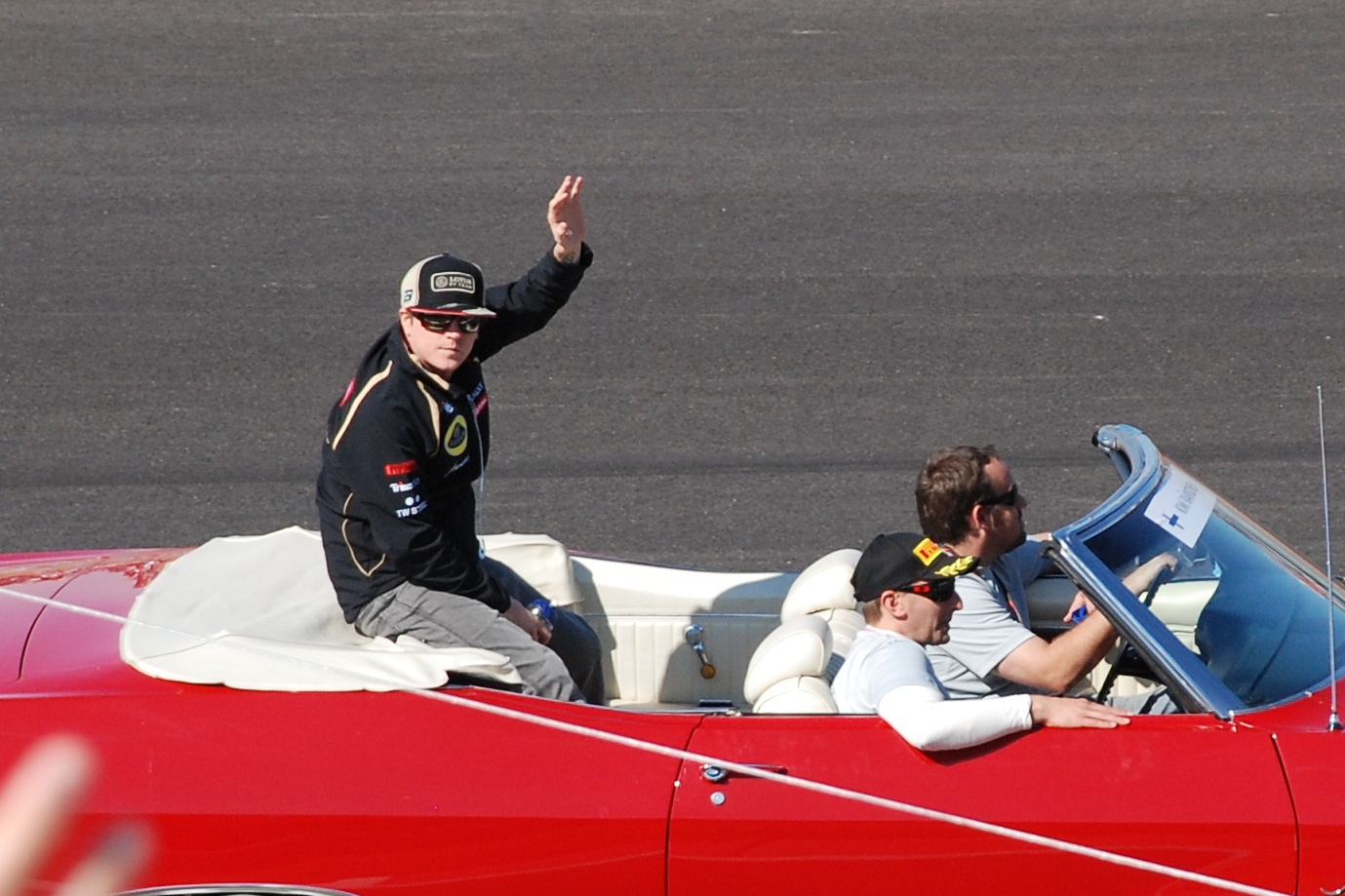 Kimi Räikkönen, United States Grand Prix, Austin 2012